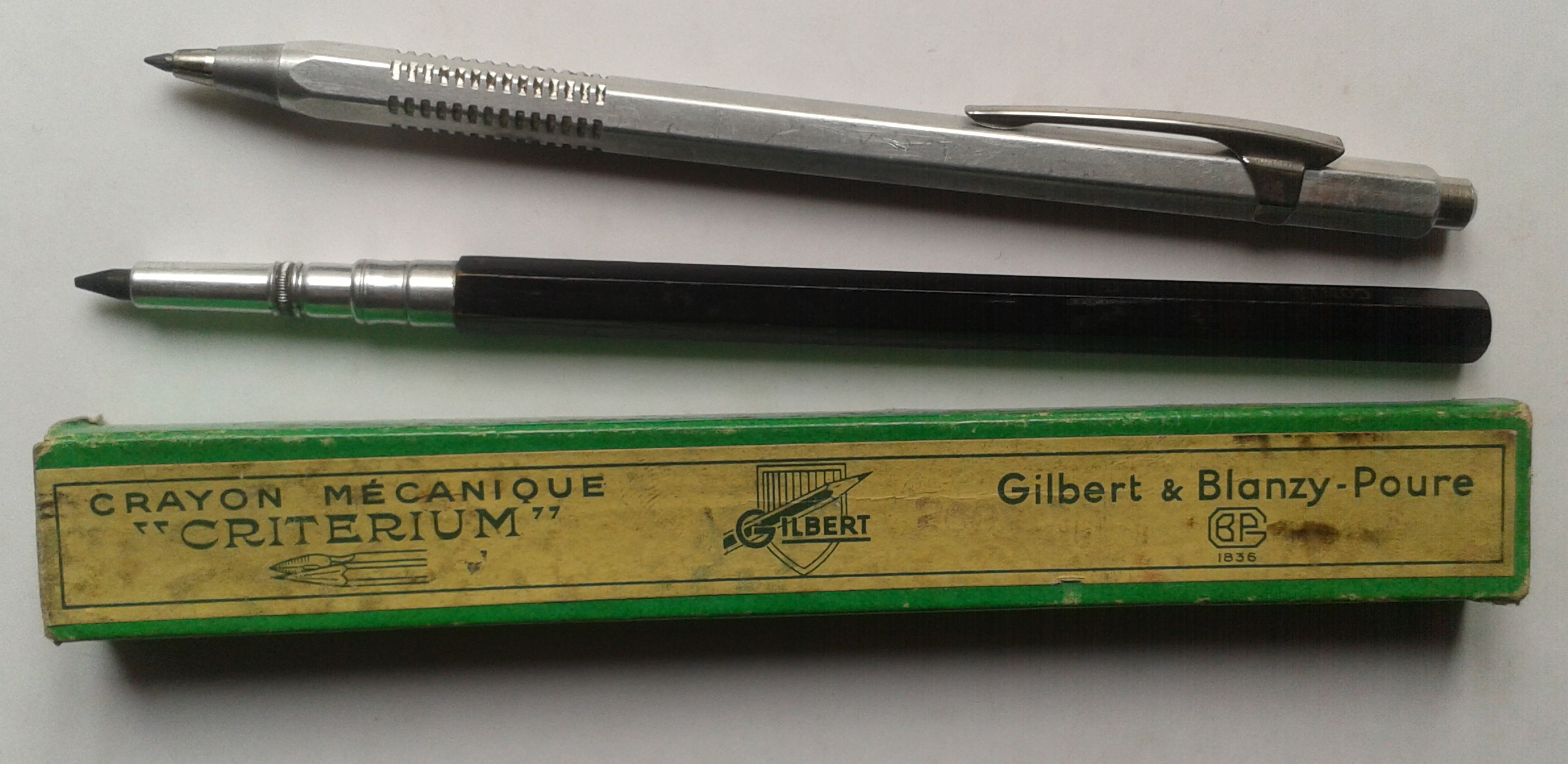 Mechanical pencil 'Criterium 2603'.